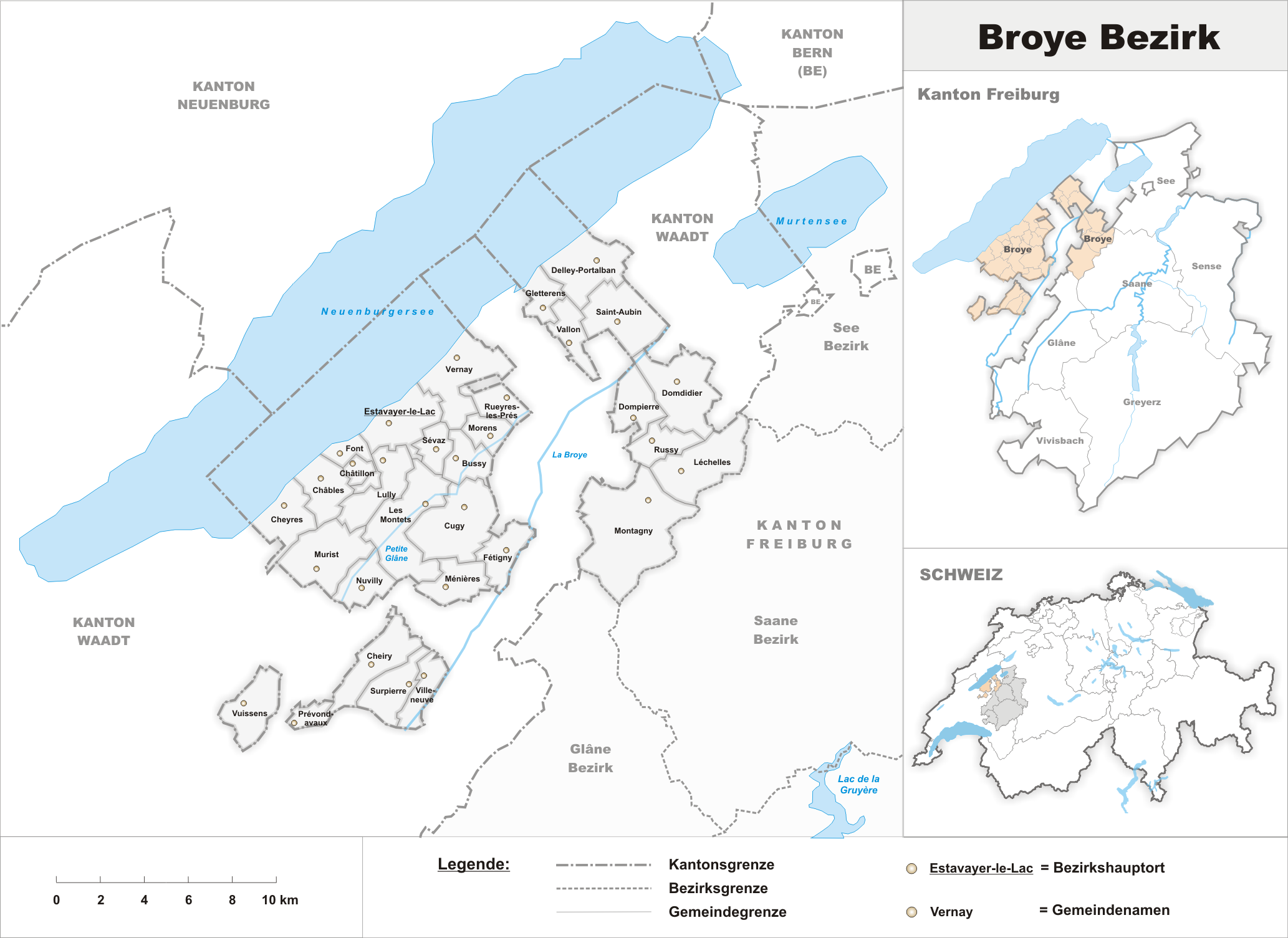 Municipalities in the district of Broye